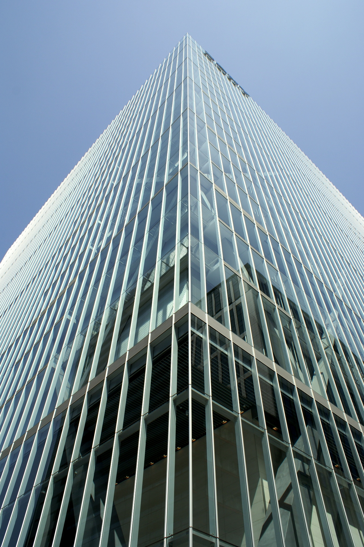 new headquarters